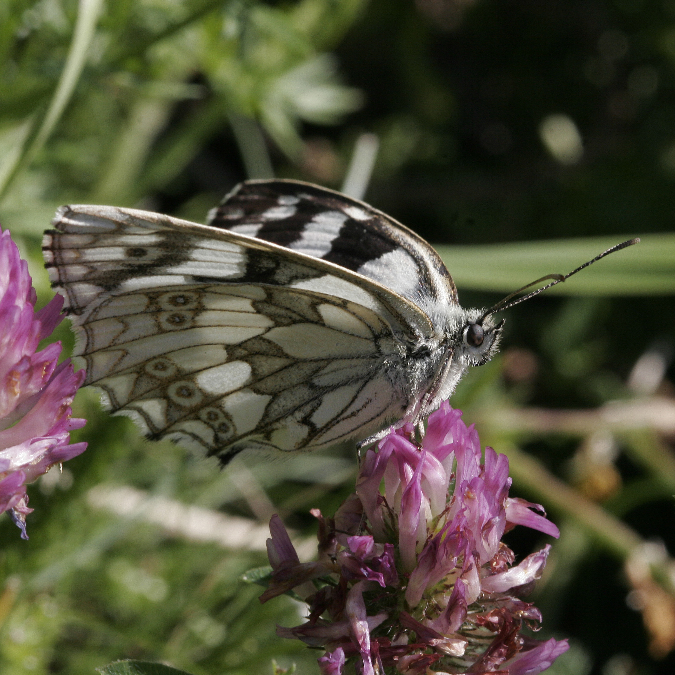 female Marbeld White (Melanargia galathea).